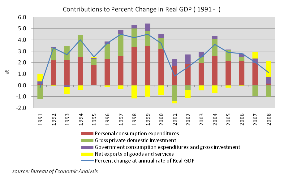 Contributions_to_Percent_Change_in_Real_GDP_(the_US_1991-)